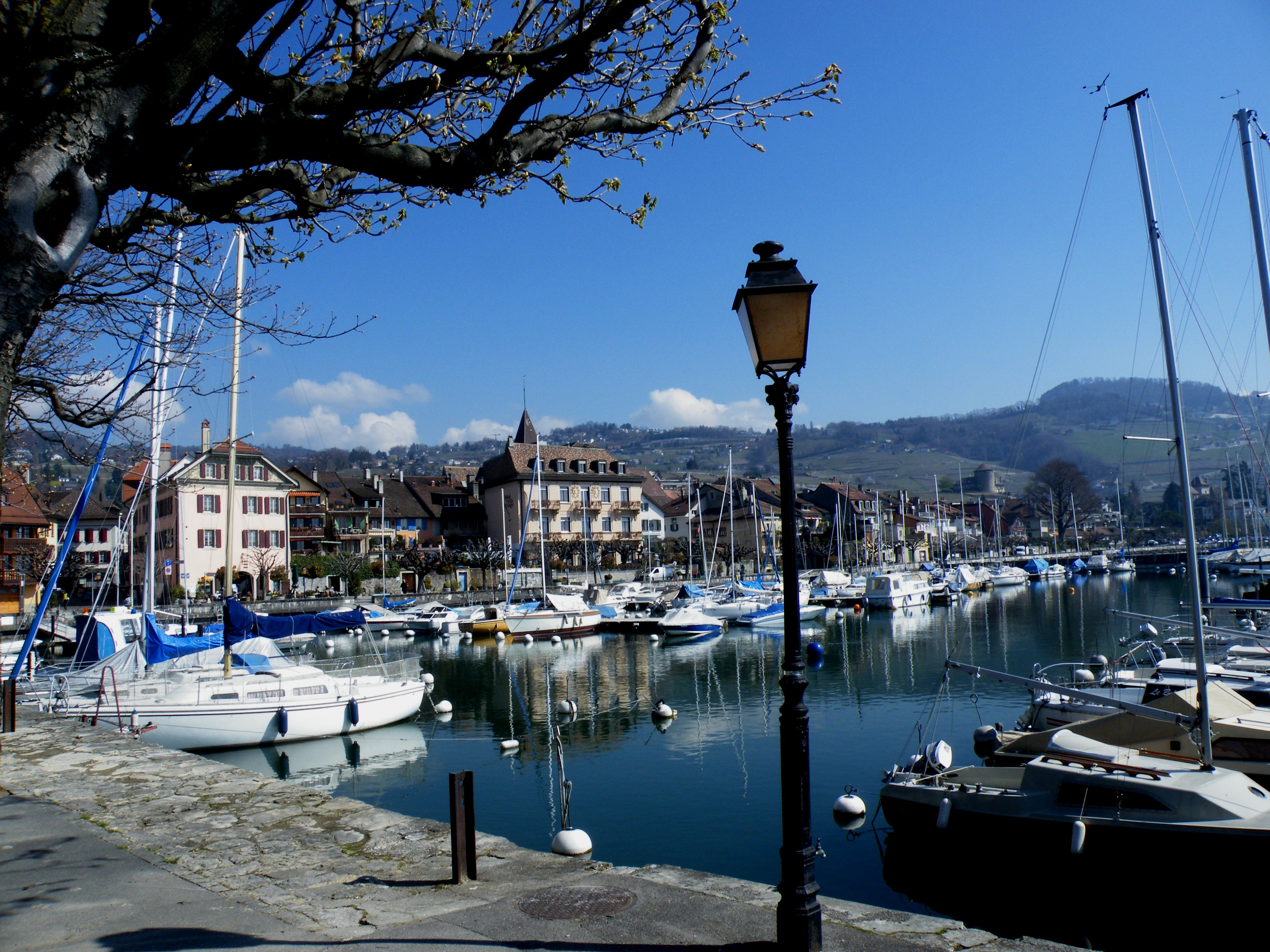 Lutry harbour, Switzerland